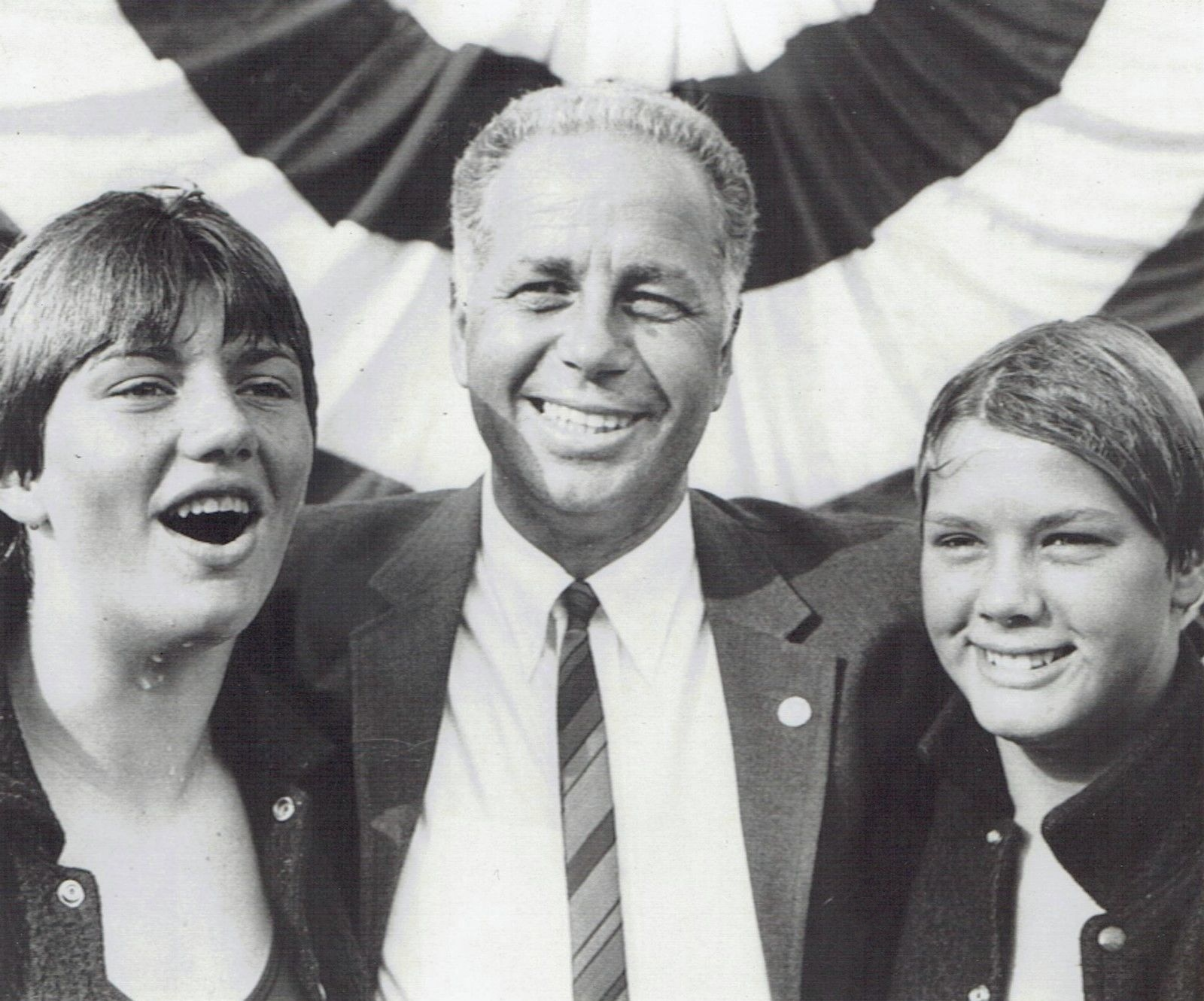 1967 Wire Photo Debbie Meyer Sue Pedersen Sherm Chavoor at AAU Championships